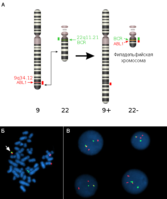 Detection of Philadelphia chromosome by fluorescence in situ hybridization with probes to BCR (green) and ABL1 (red) loci.